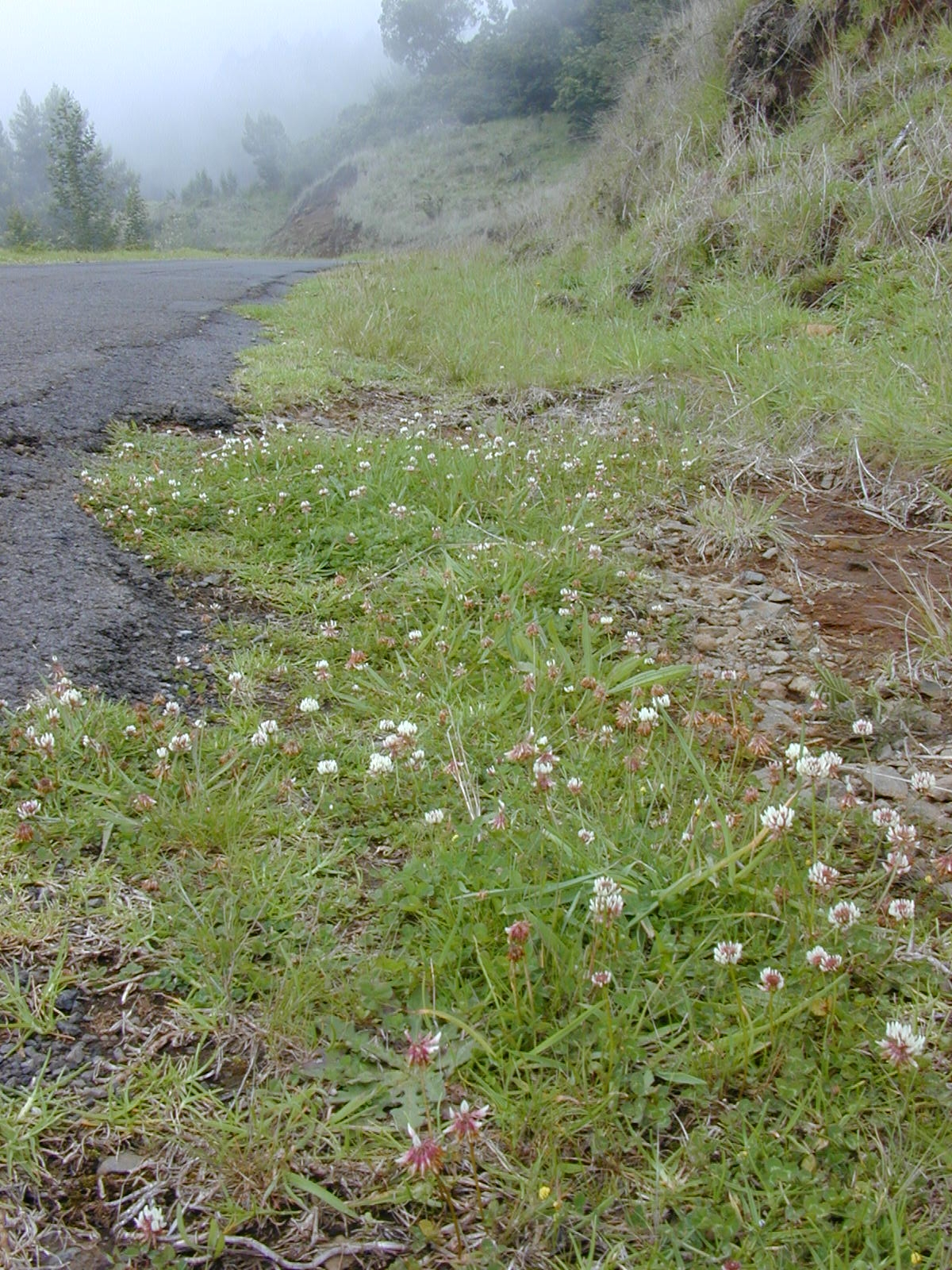 Trifolium repens (habit). Location: Maui, Polipoli